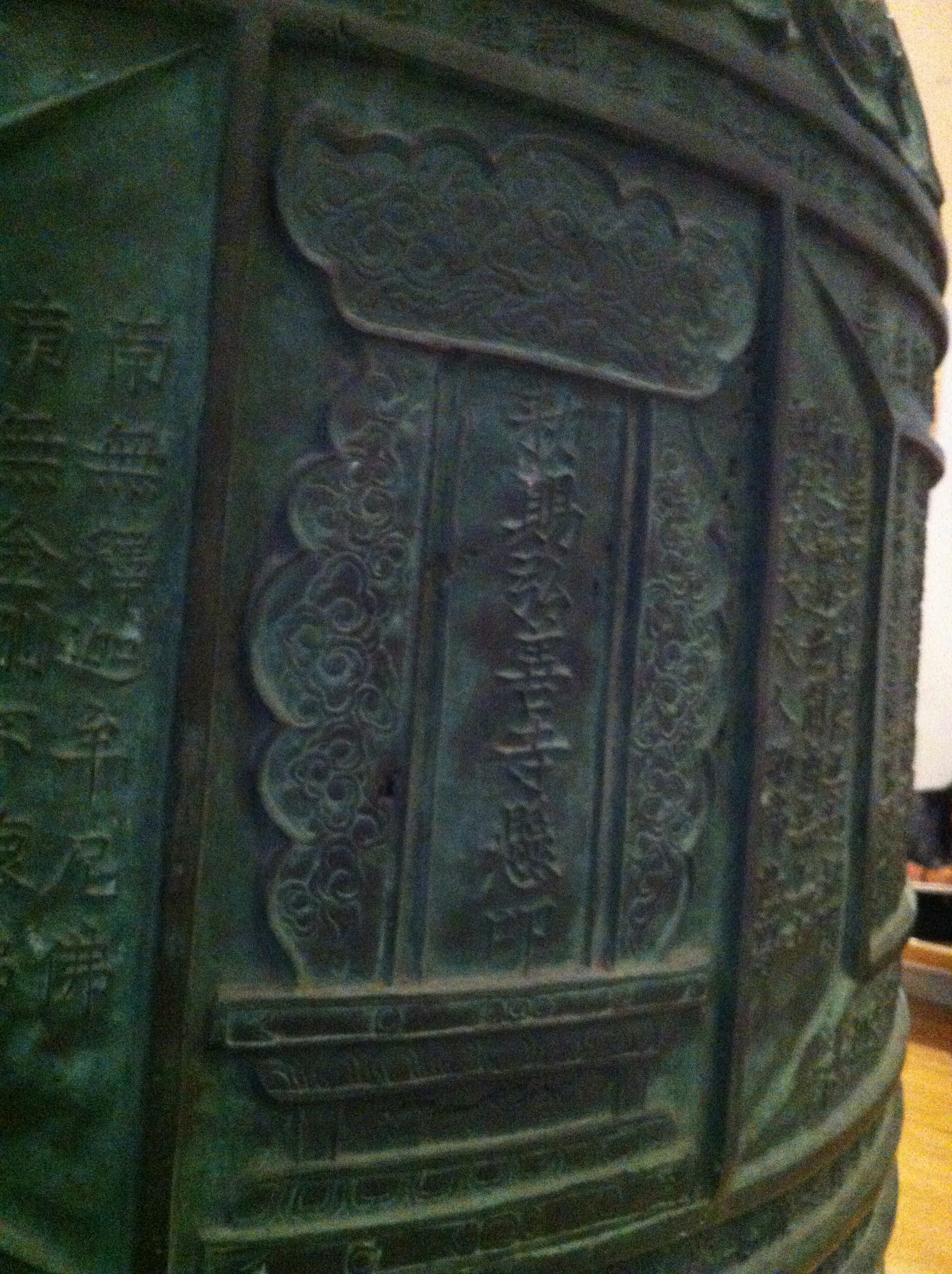 Suspended in Hong Shan Si